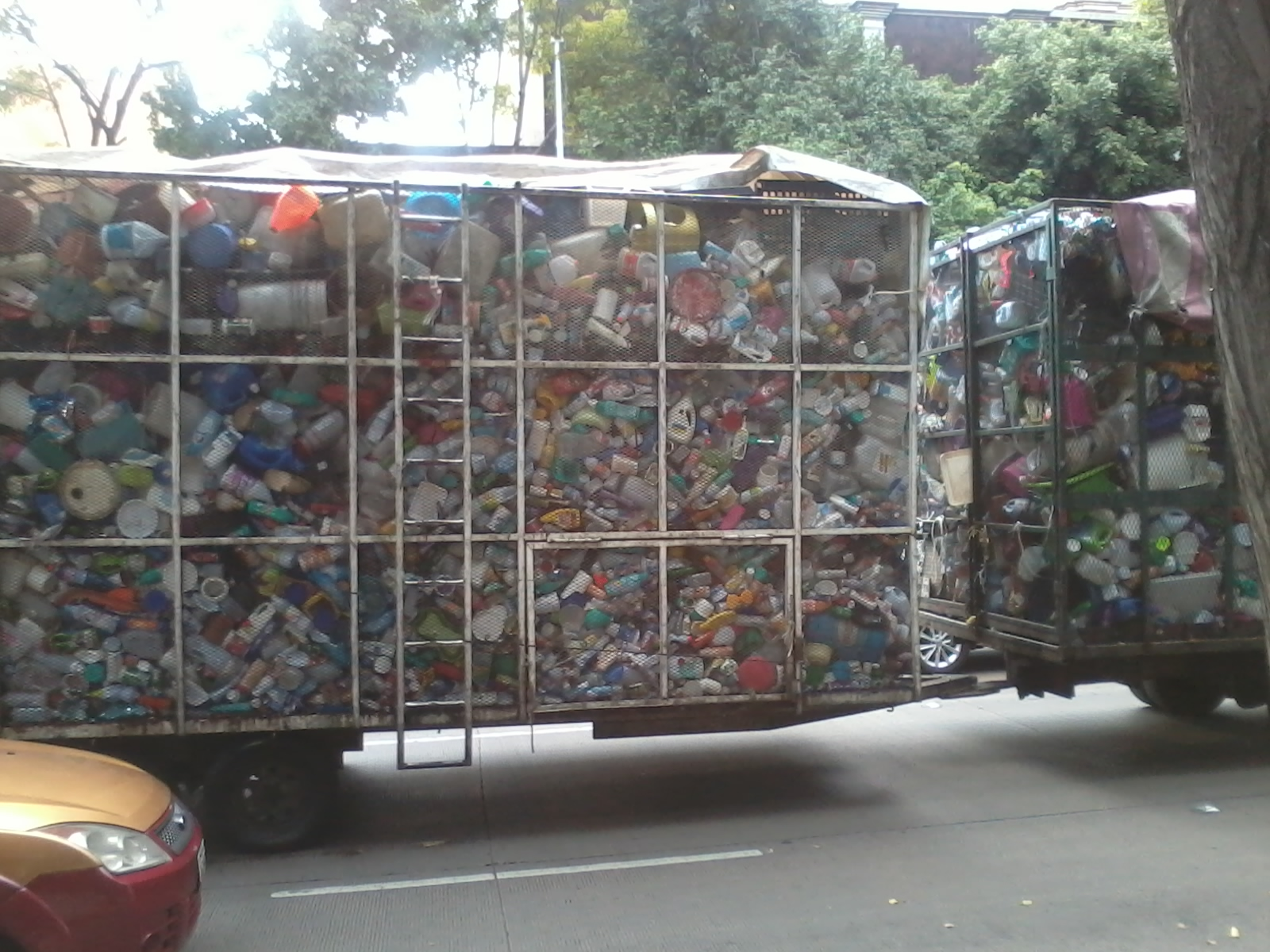 A truck transporting plastic waste (plastic containers) (Patriotismo Avenue and Eje 4 Sur Benjamín Franklin, Mexico City)